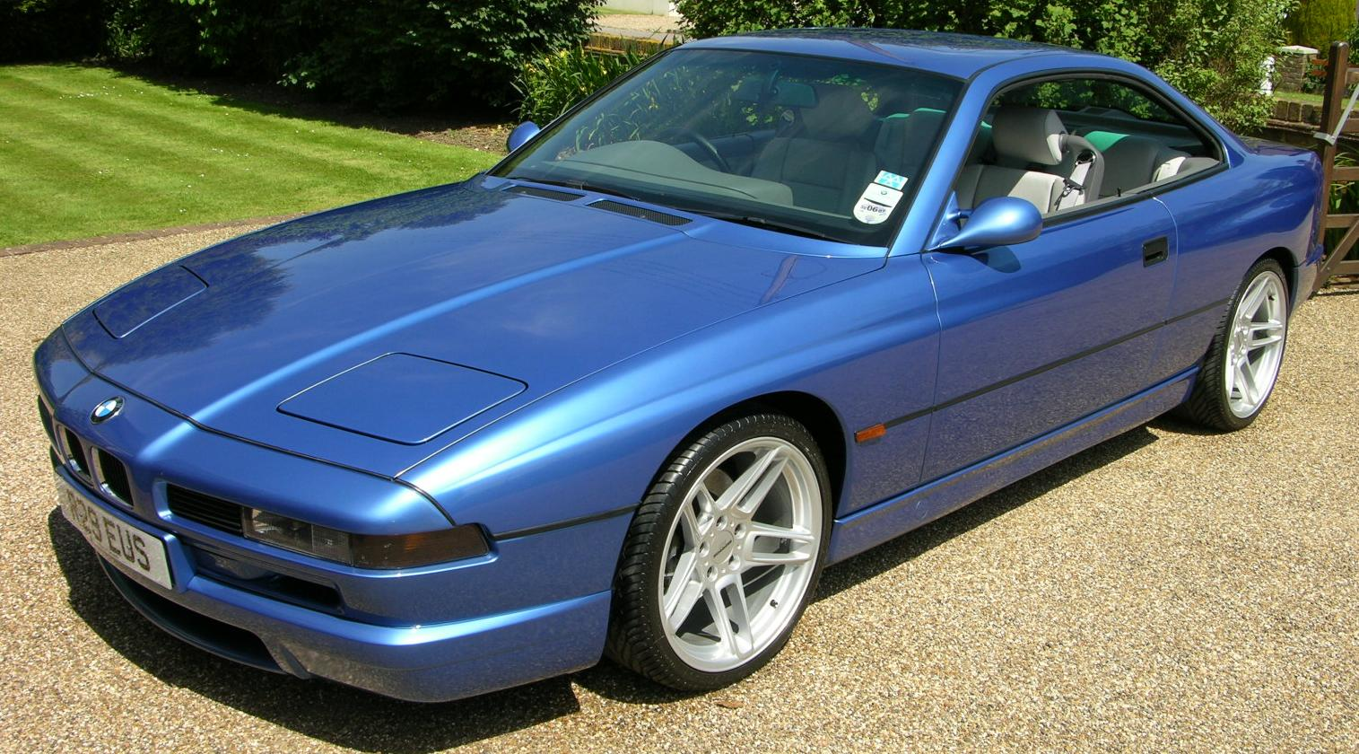 BMW 840 Ci Sport